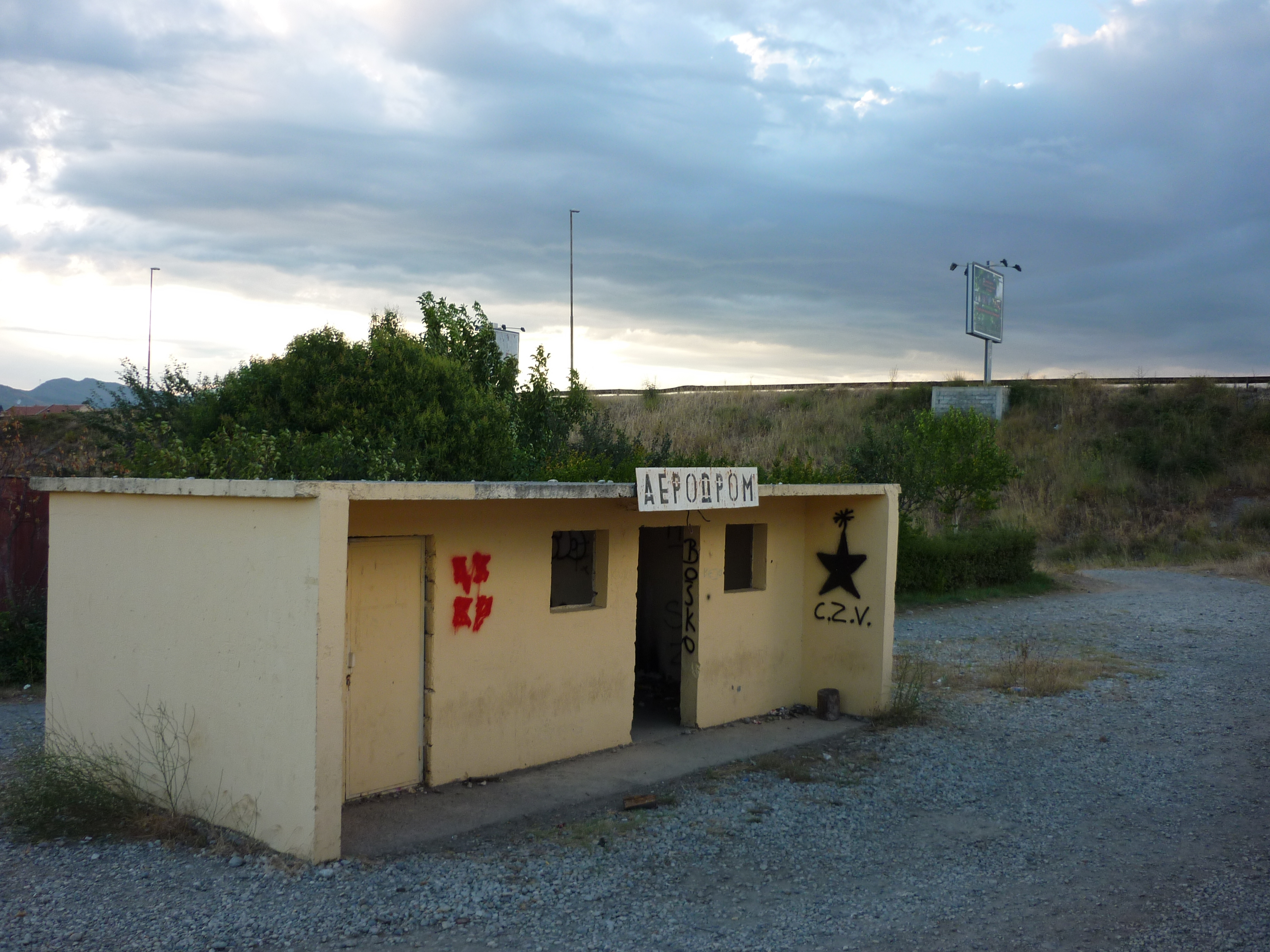 Stopping point "Аеродром", the station of Podgorica Airport in Montenegro.